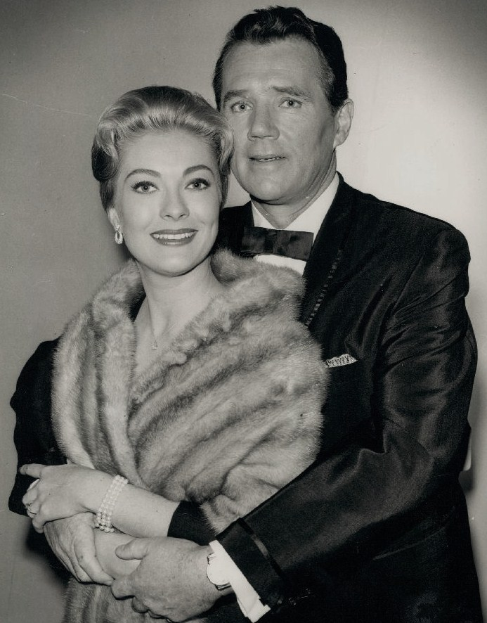 Lori Nelson & Howard Duff in the TV series Dante - publicity still (cropped : see source)